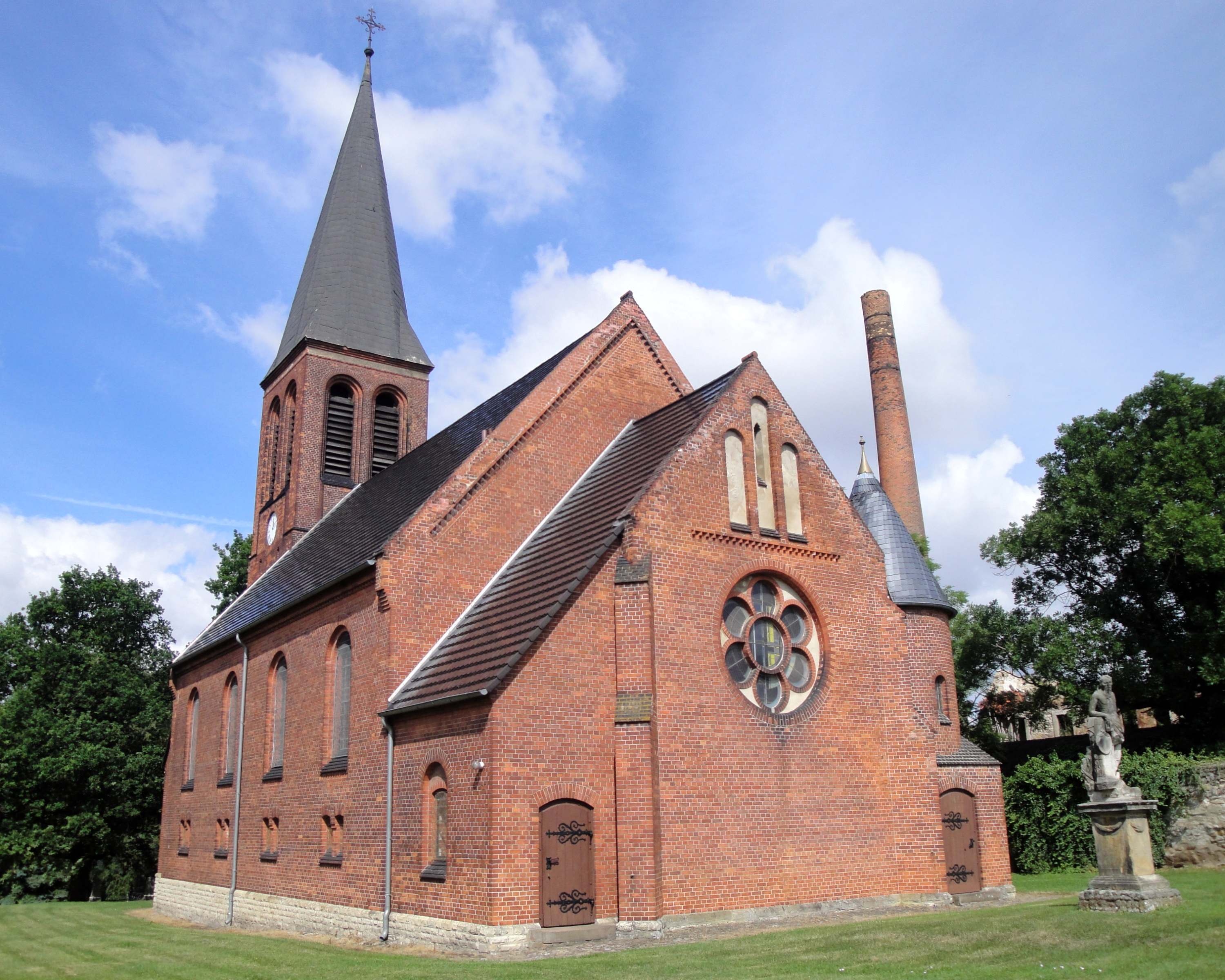 Church St. Jakobi in Dreileben, Germany